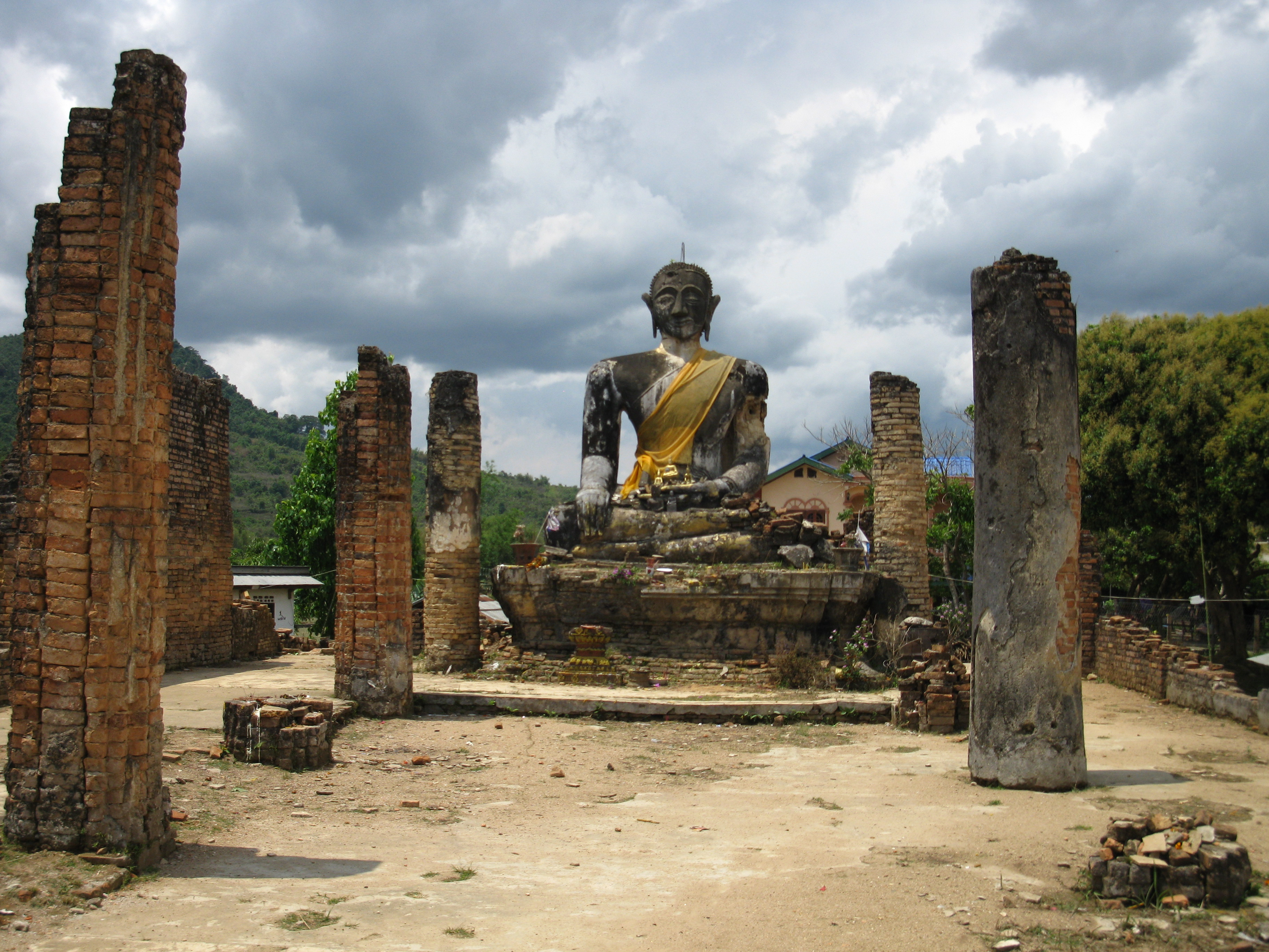 Wat Phia Wat temple, Muang Khoun, Xieng Khouang Province, Laos